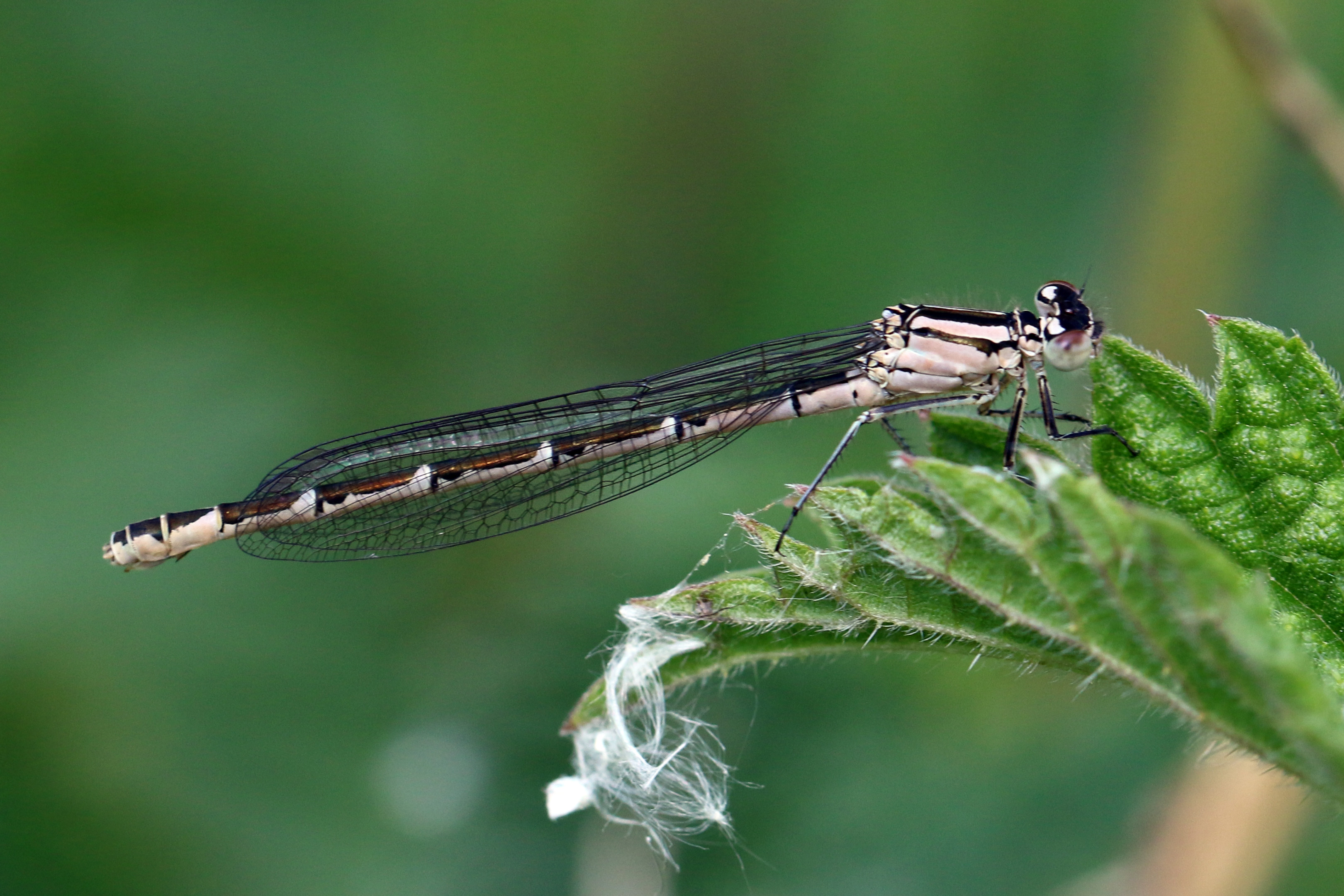 Common blue damselfly (Enallagma cyathigerum) heterochrome female